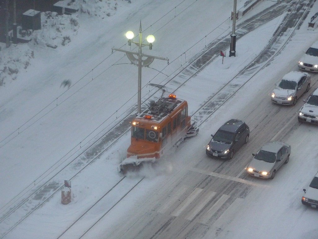 Sapporo-Tram Snow broom car in Susukino